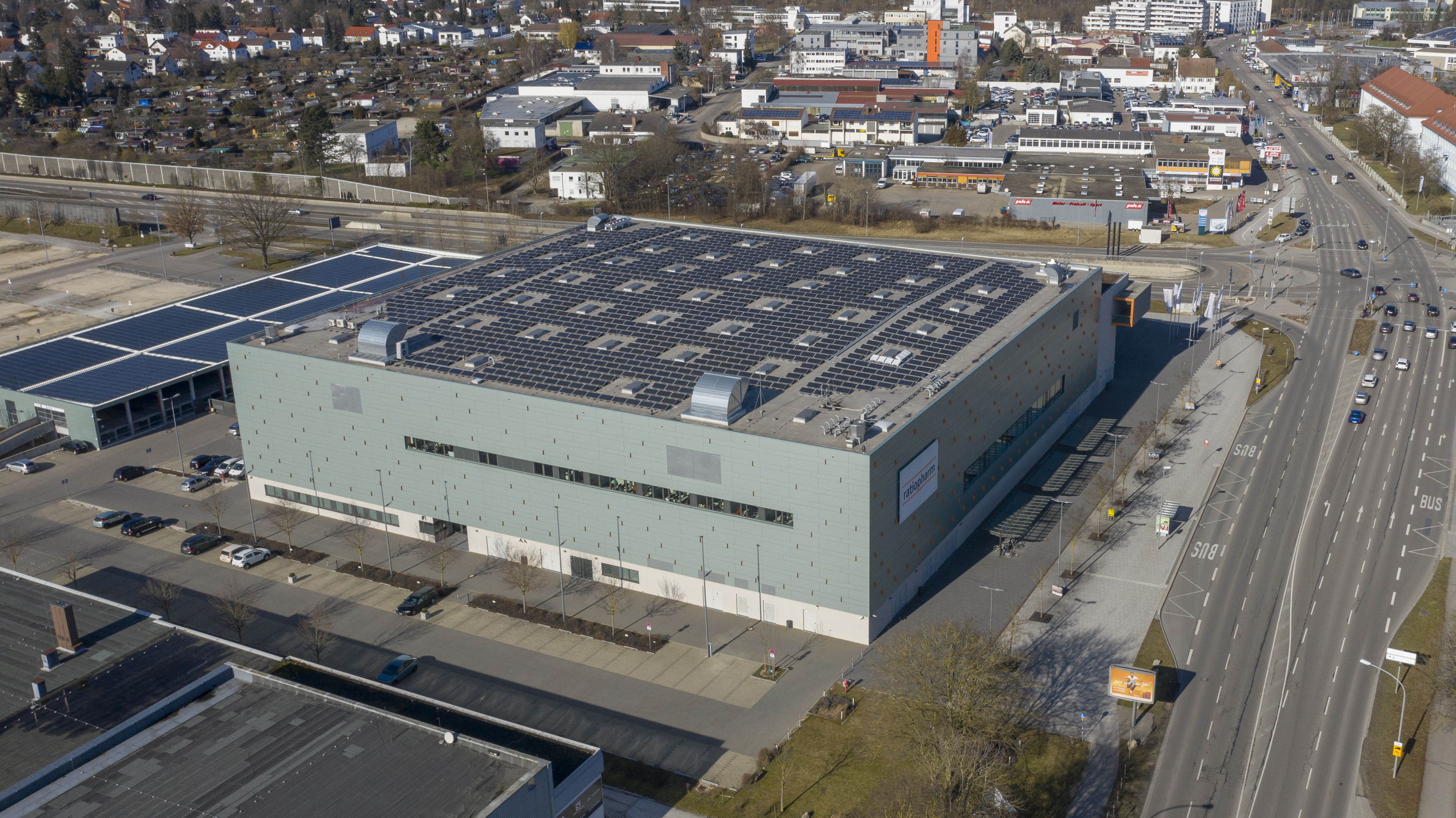 rathiopharm Arena, Neu-Ulm, Bavaria, Germany